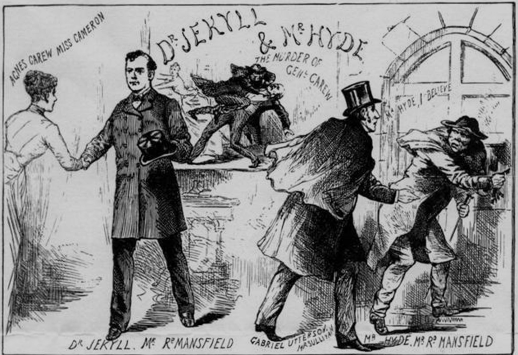 Sketch from Penny Illustrated Paper illustrating scenes from the play Dr. Jekyll and Mr. Hyde, performed at the Lyceum Theatre in London in 1888.